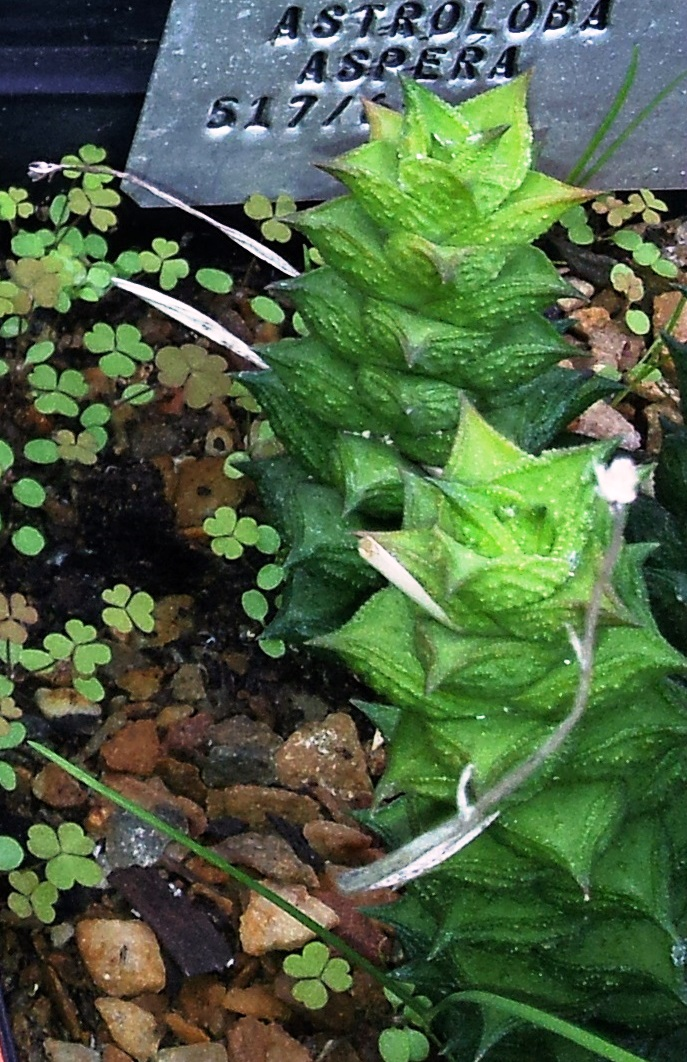 Astroloba aspera AKA Astroloba corrugata - Stellenbosch